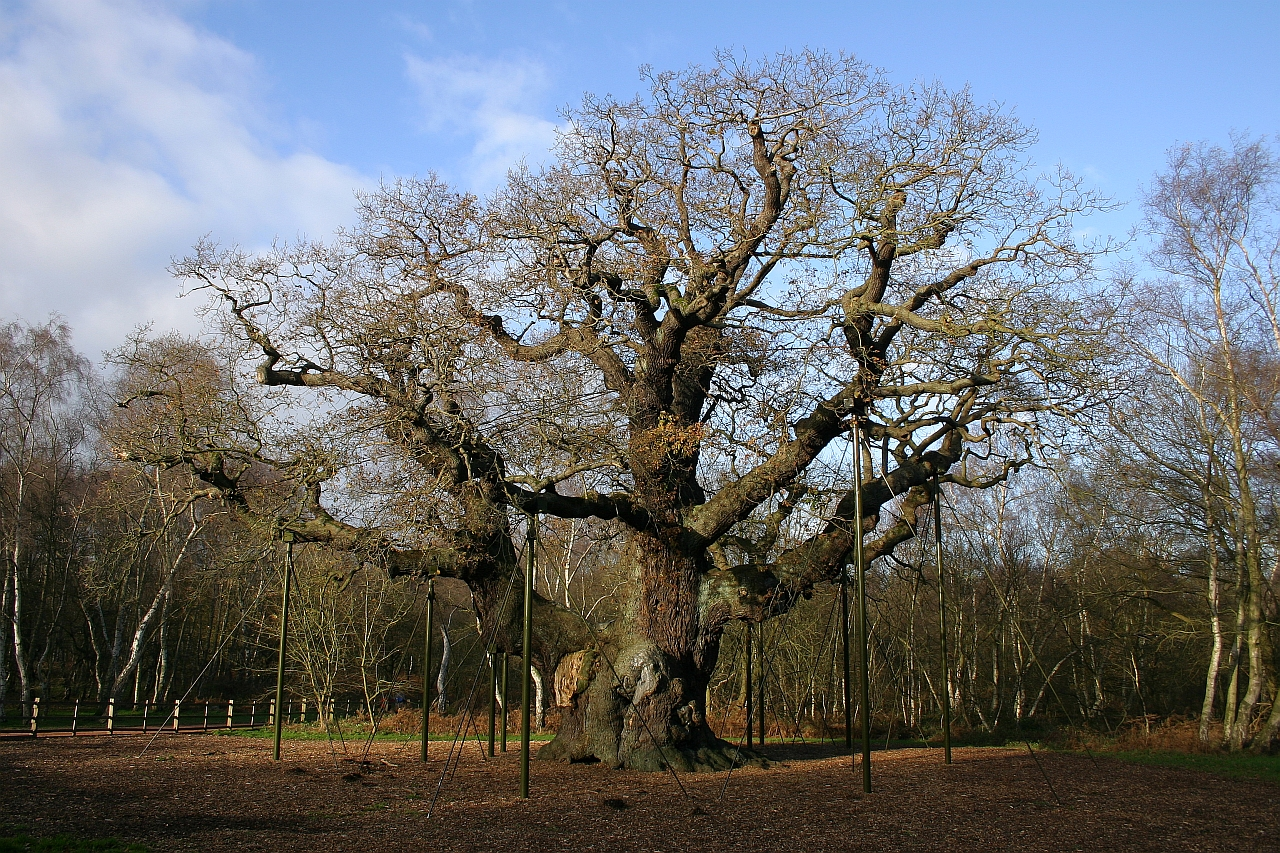 Picture of the Major Oak in Sherwood Forest, Nottinghamshire, UK in December 2006